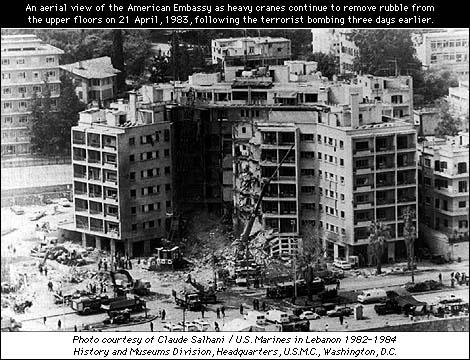 Photograph of the US Embassy in Beirut on 21 April 1983, three days after it was bombed.